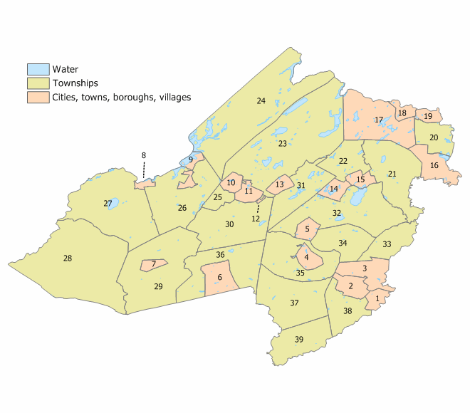 Locator map of places in Morris County, New Jersey. See also lineage of index maps.